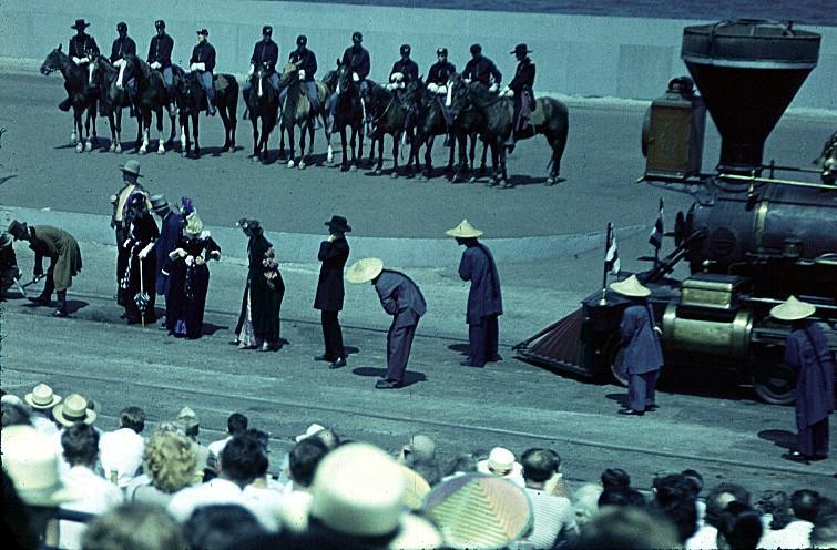 Chicago Railroad Fair. 1949 Another photo of the reinactment of the Golden Spike ceremony at the Chicago Railroad Fair.